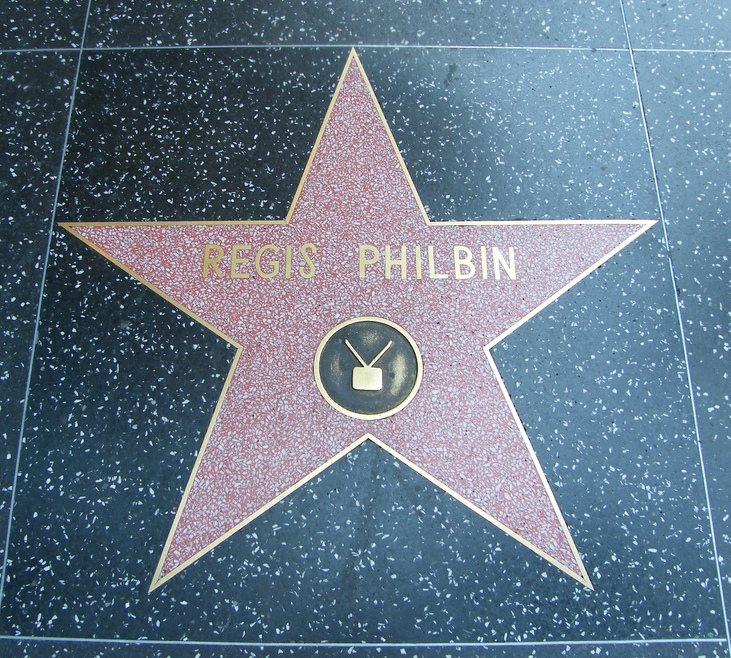 Regis Philbin's star on the Hollywood Walk of Fame in Hollywood, Los Angeles, California